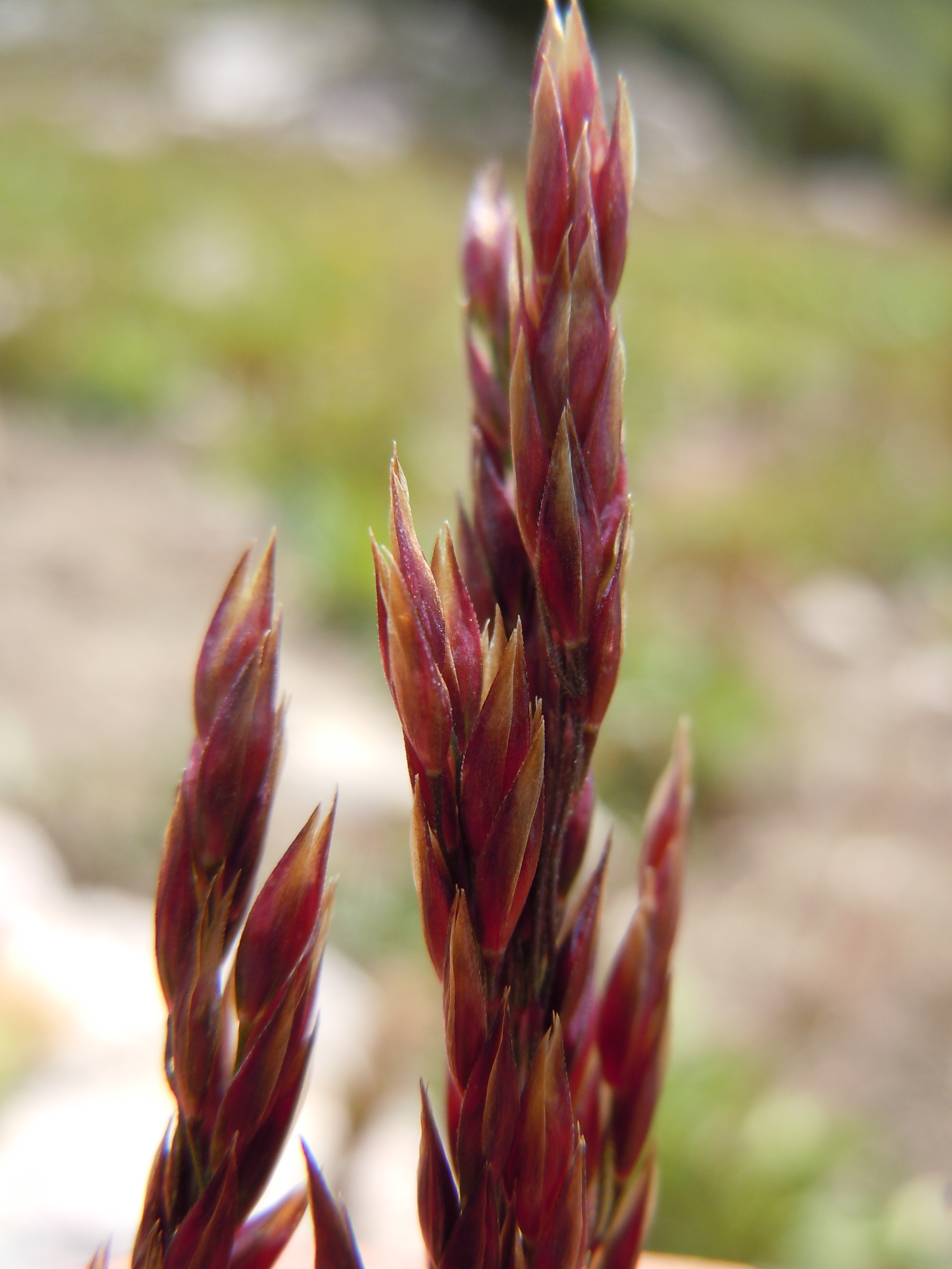 Each pari of large purplish or red-purplish glumes completely envelope the two florets inside.